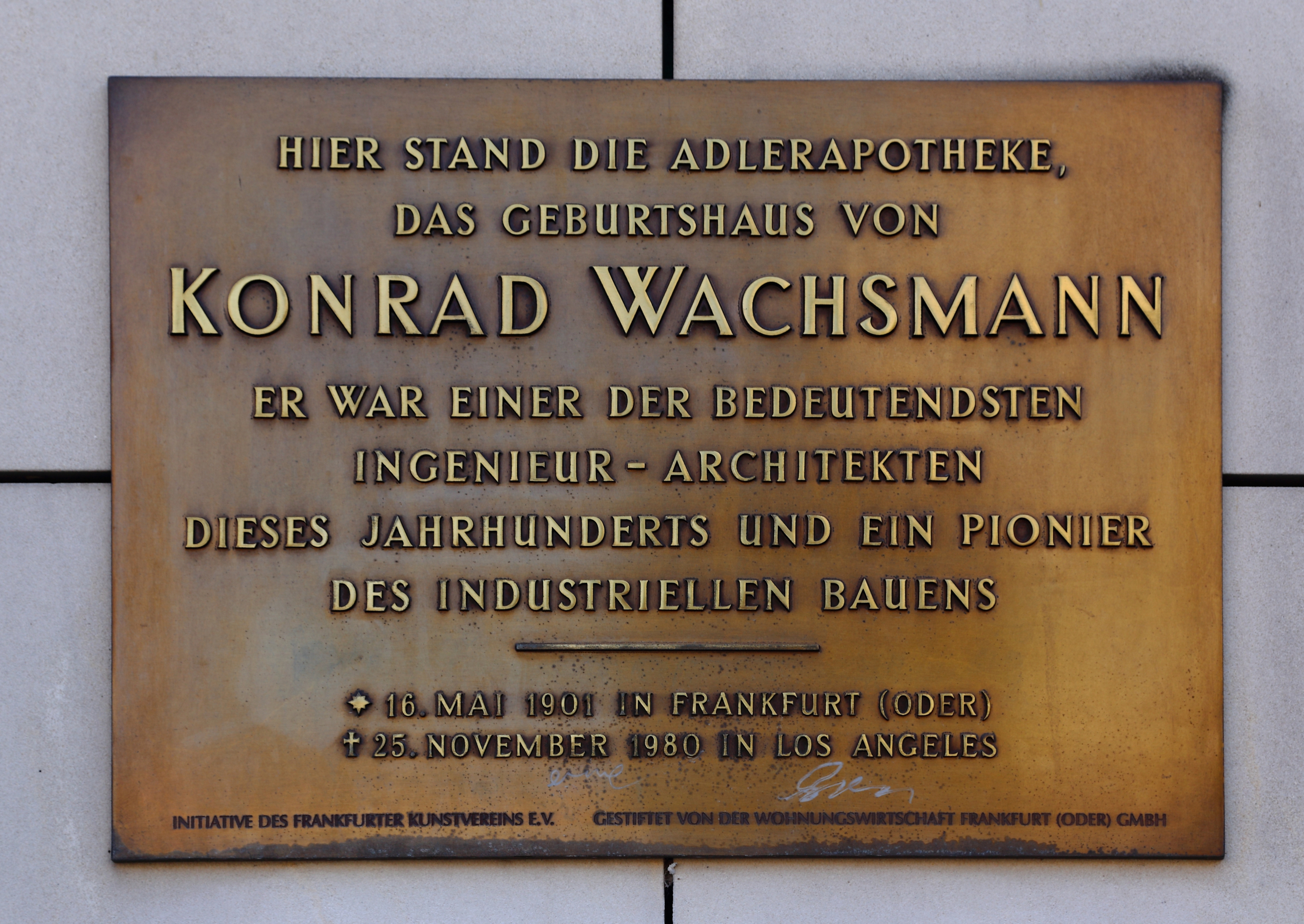 Memorial plaque for Konrad Wachsmann at his birthplace in Frankfurt (Oder), Brandenburg, Germany.